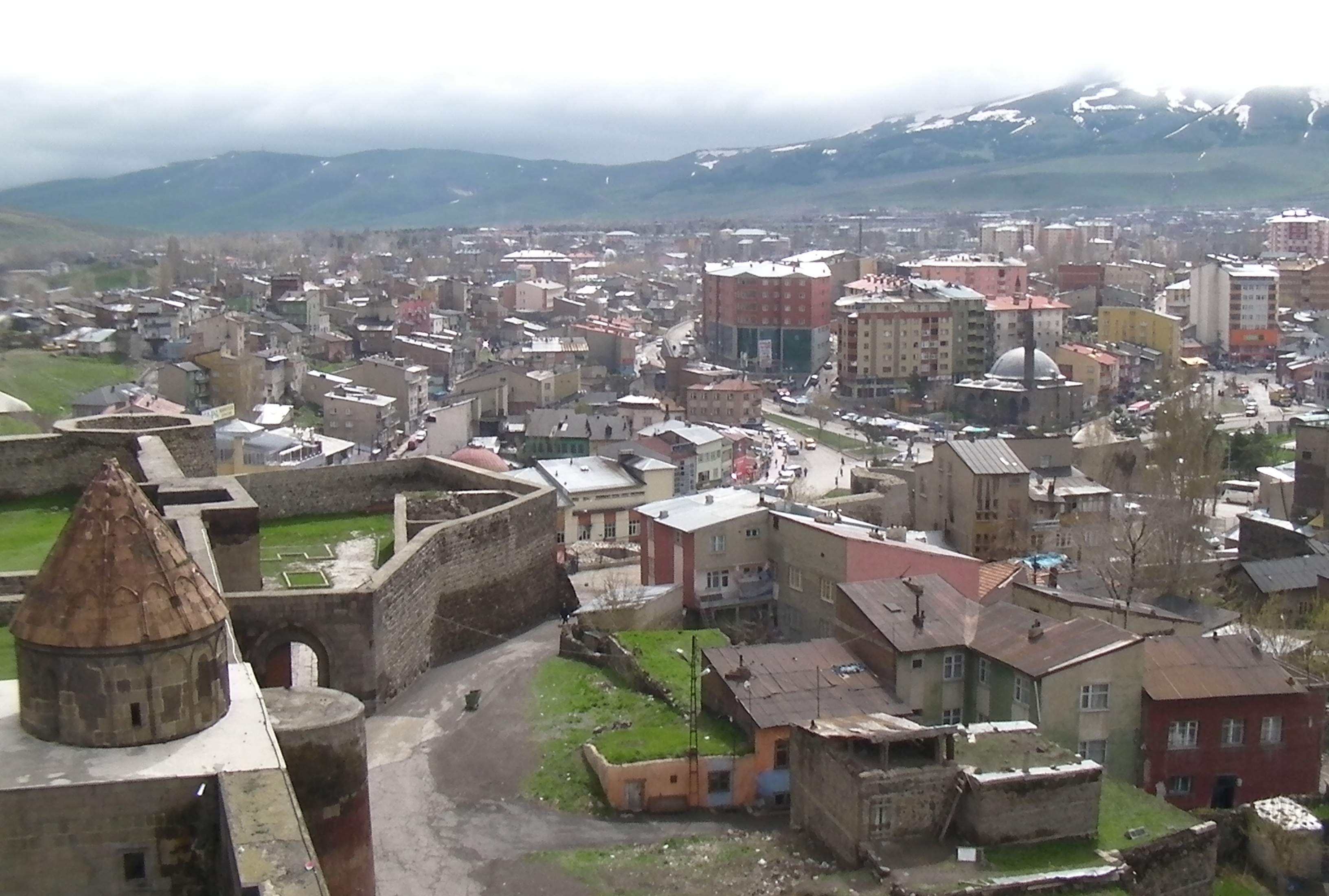 View east-south-east of Erzurum, Turkey from the minaret of Erzurum Citadel. In the lower left corner is the Citadel Masjid, which has an inscription stating that it was built in the 12th century.